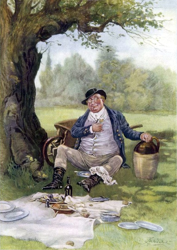 "Mr. Pickwick Picnics"